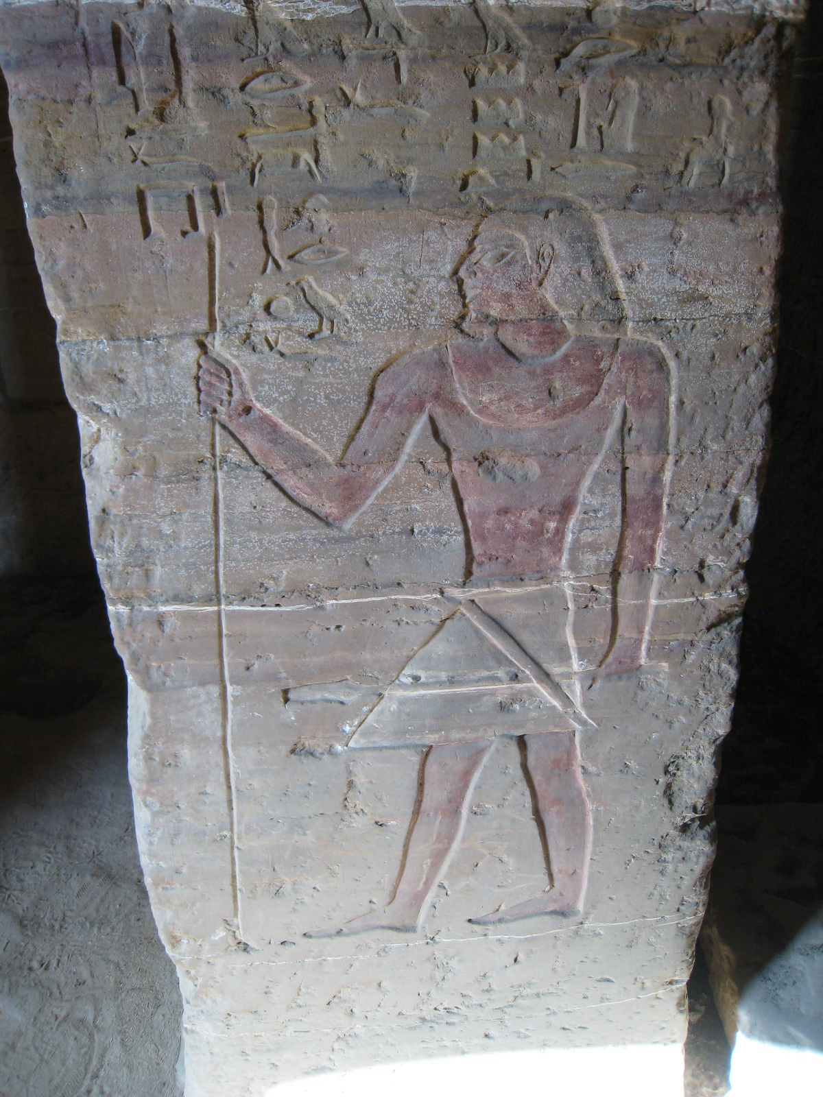 Qubbet el-Hawa IMG_6388